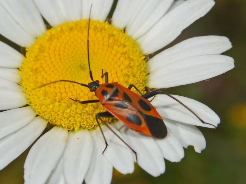 Calocoris nemoralis f. hispanica